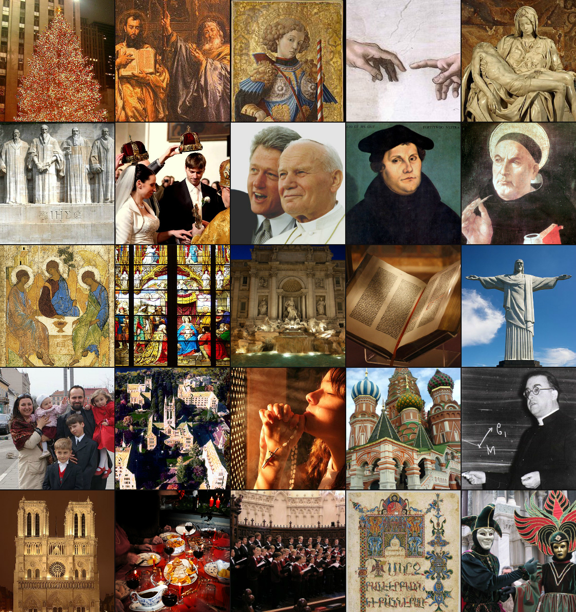 Christian Civilization التأثير الحضاري للمسيحية.